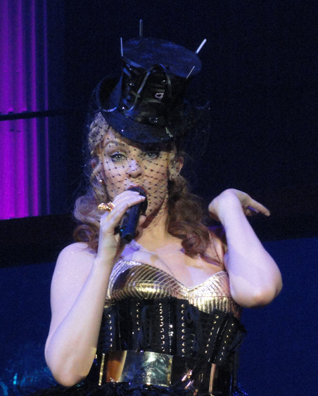 Kylie Minogue performing "Spinning Around" live during the Aphrodite Les Folies tour show in San Francisco